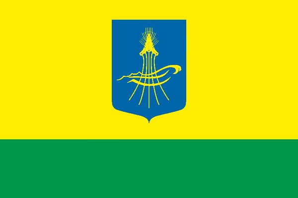 Flag of Burinskij district (Ukraine)